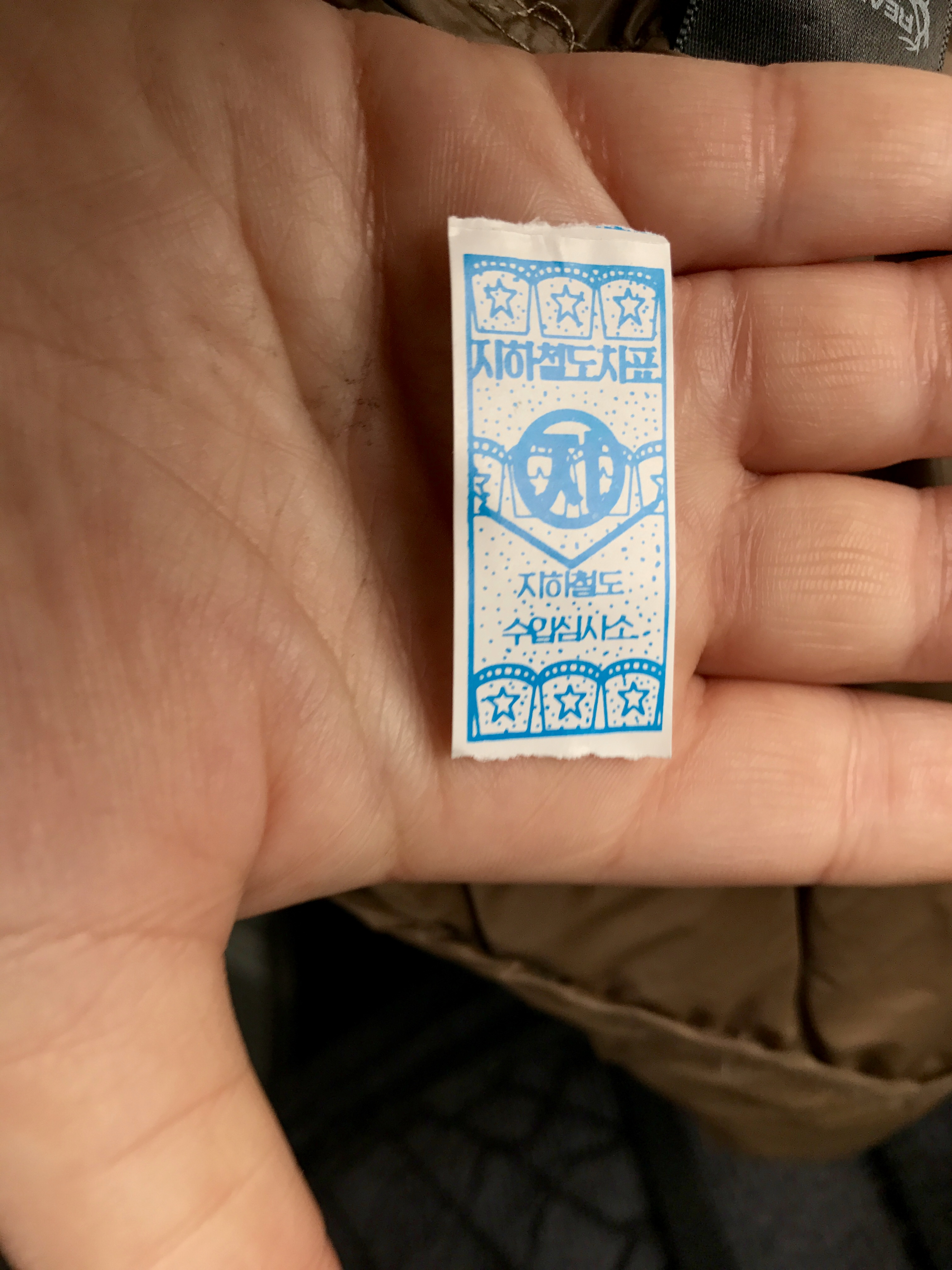 Subway ticket